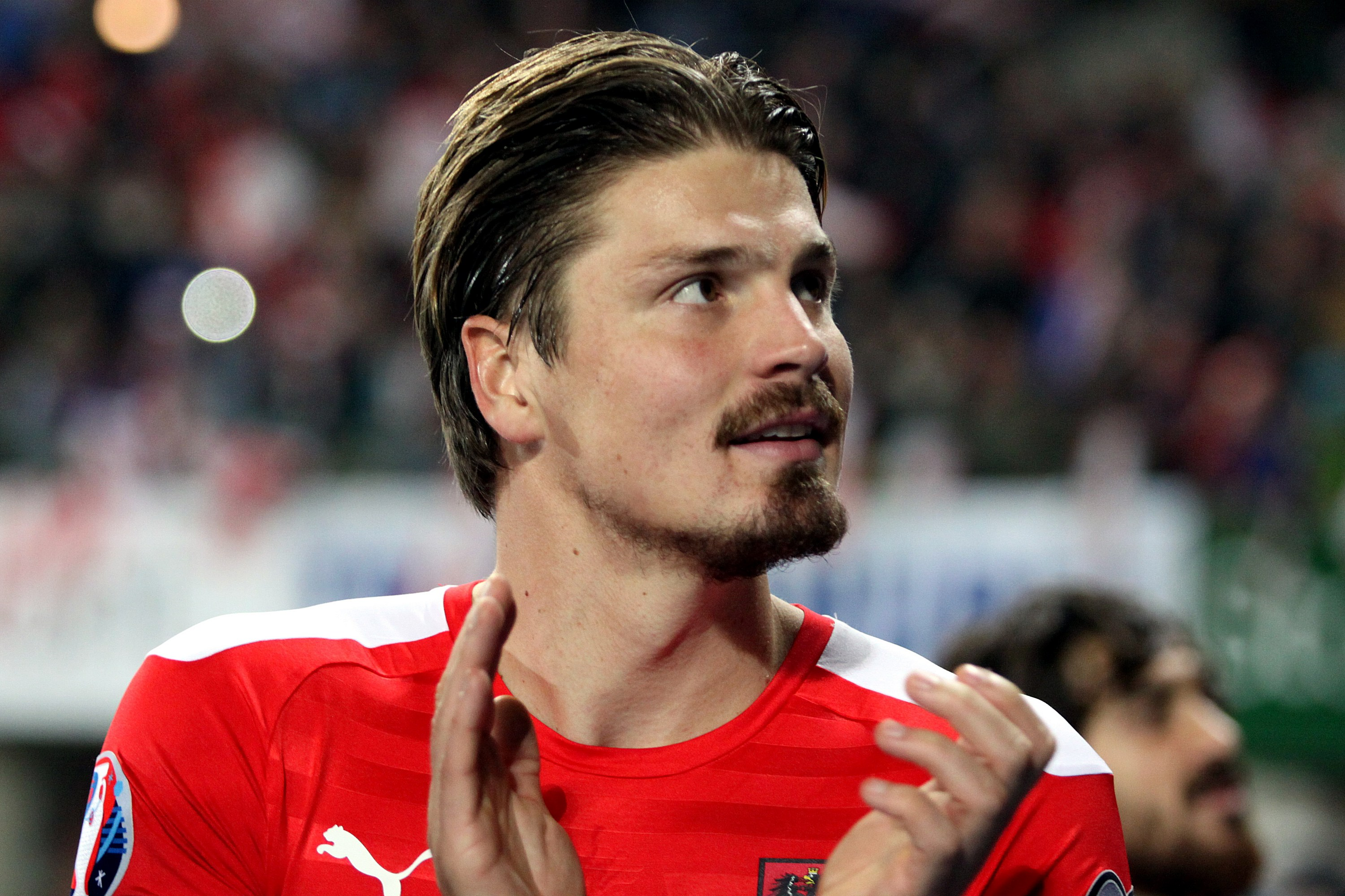 en:UEFA Euro 2016 qualifying |UEFA Euro 2016 qualifying : Austria vs. Russia (1:0 / 0:0) at 2014-11-15 in the Ernst-Happel-Stadion in Vienna. – The photo shows en: (Austria / Rusiia).